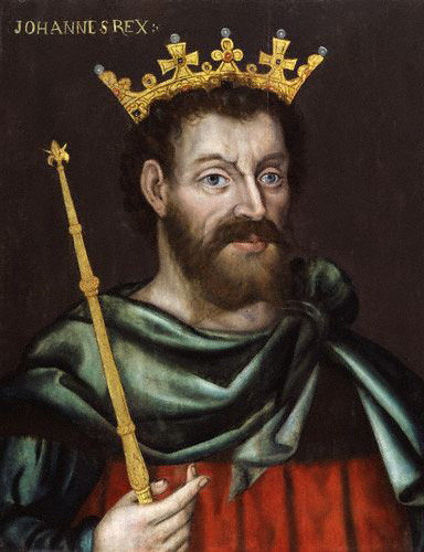 John of England